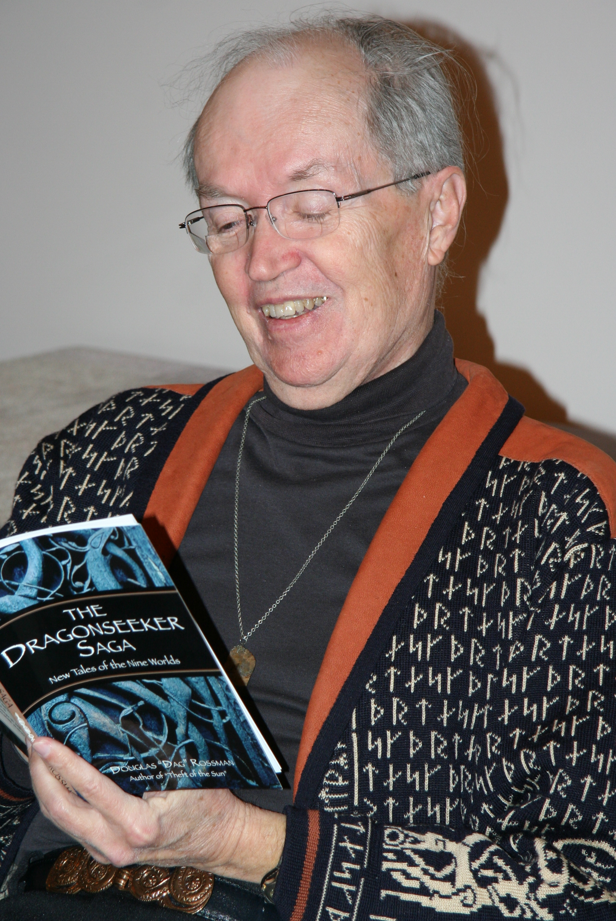 Douglas "Dag" Rossman (July 4, 1936 - July 23, 2015) reading from his book, The Dragonseeker Saga, at Vesterheim Norwegian-American Museum in Decorah, Iowa, United States